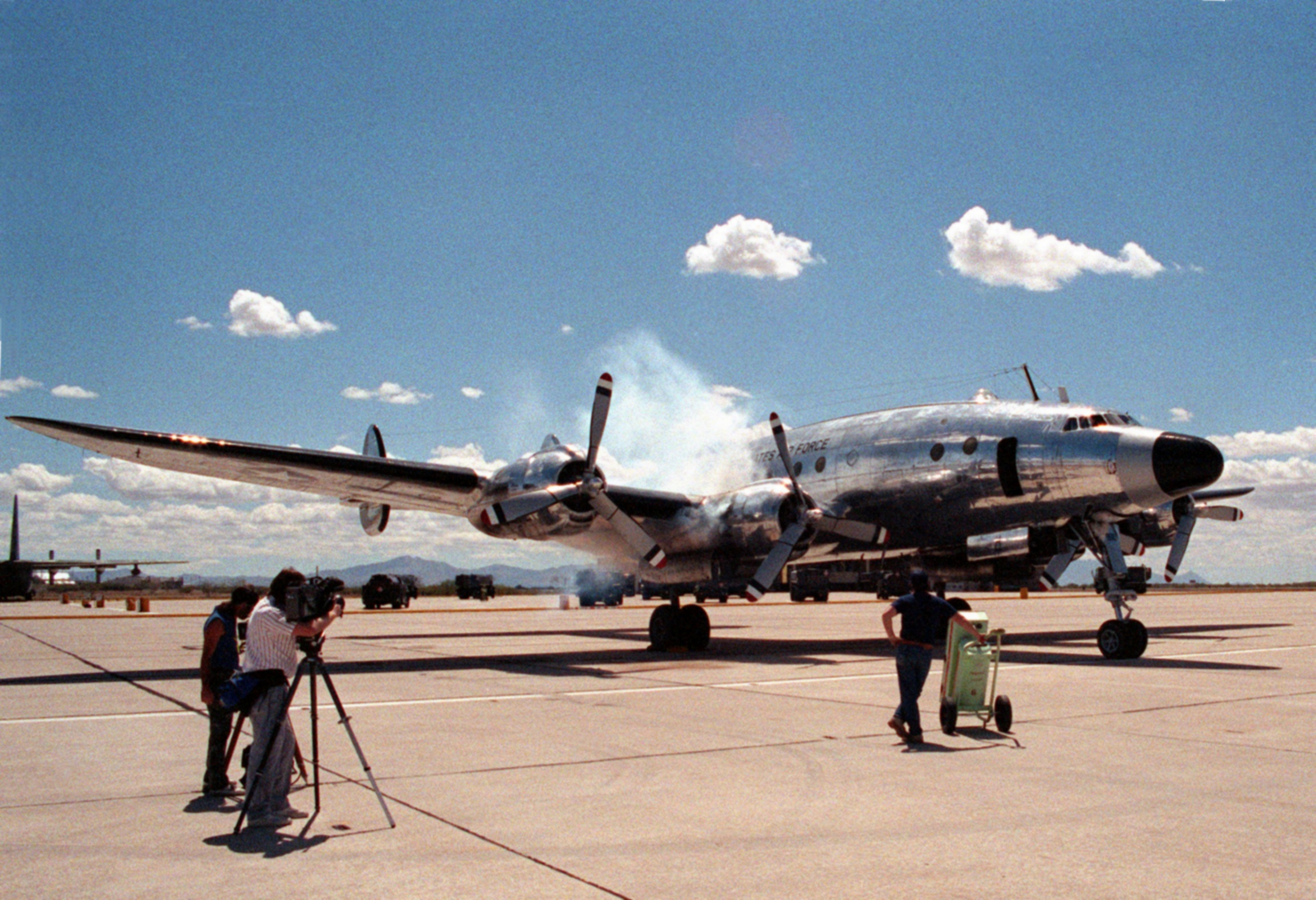 The former U.S. Air Force Lockheed VC-121A Constellation (s/n 48-610) starting its engines at Davis-Monthan Air Force Base, Arizona (USA), before departure on its way to a private company for further restoration work on 24 October 1990. The aircraft had already undergone restoration at the Aerospace Maintenance and Regeneration Center at Davis-Monthan AFB after being kept in storage for over 20 years. 48-610 served as Dwight D. Eisenhower’s presidential aircraft "Colombine II" from January 1953 to November 1954 until replaced by the "Colombine III" VC-121E. Since 1989 it is privately owned (civil registration N9463).